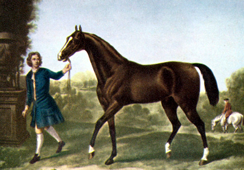 Purebred Arabian stallion and one of the foundation sires of the Thoroughbred breed